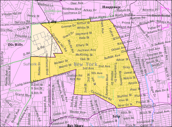 U.S. Census 2000 reference map for Brentwood